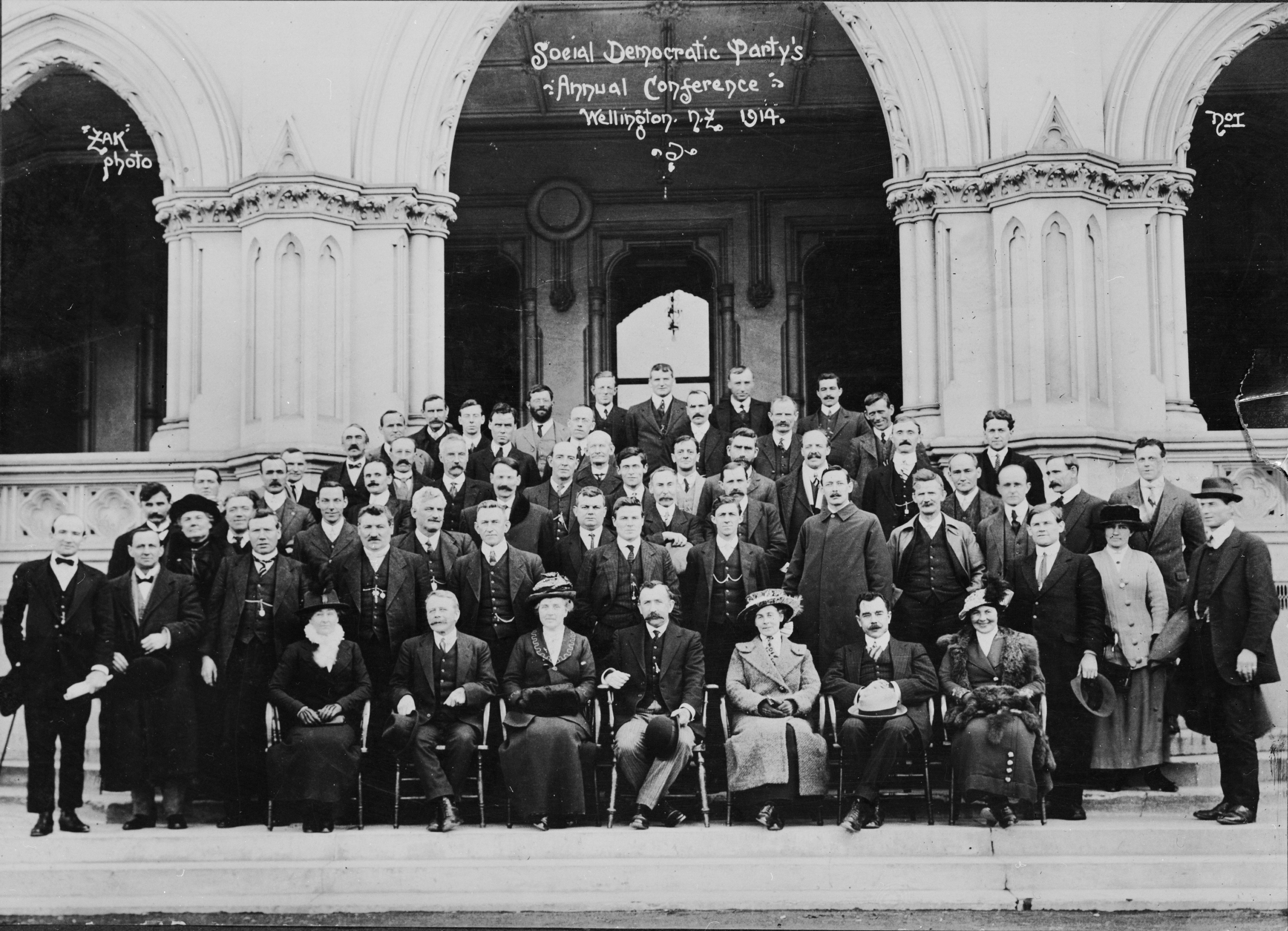 Group photo from the New Zealand Social Democratic Party Annual Conference outside parliament buildings, Wellington, 1914